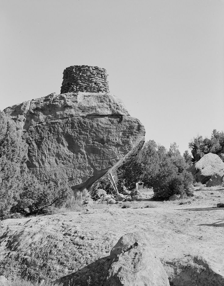 One side of a small pueblo, located 0.6 miles north of the mouth of Simon Canyon in San Juan County, New Mexico, United States. The canyon is listed as an archaeological site on the National Register of Historic Places.